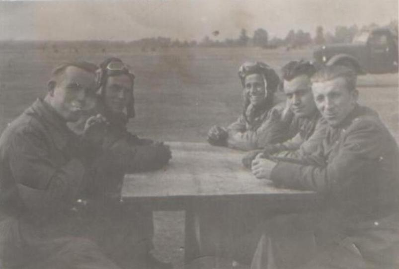 Pilot instruktor, dowódca klucza 8 Eskadry Pilotażu Podstawowego OSL-5 - kpt. pil. Tadeusz Gawryjołek, Grójec 1956r.